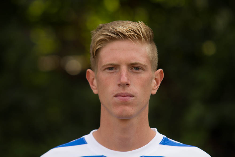 German football player Tobias Feisthammel, MSV Duisburg